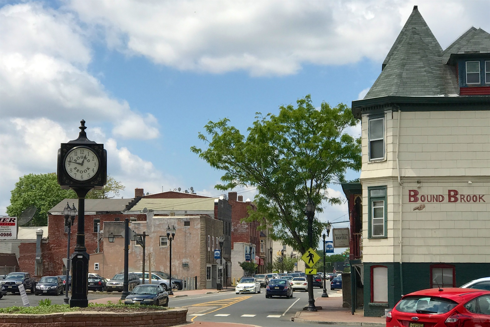 Bound Brook Hotel and clock tower on Main Street in Bound Brook, New Jersey.